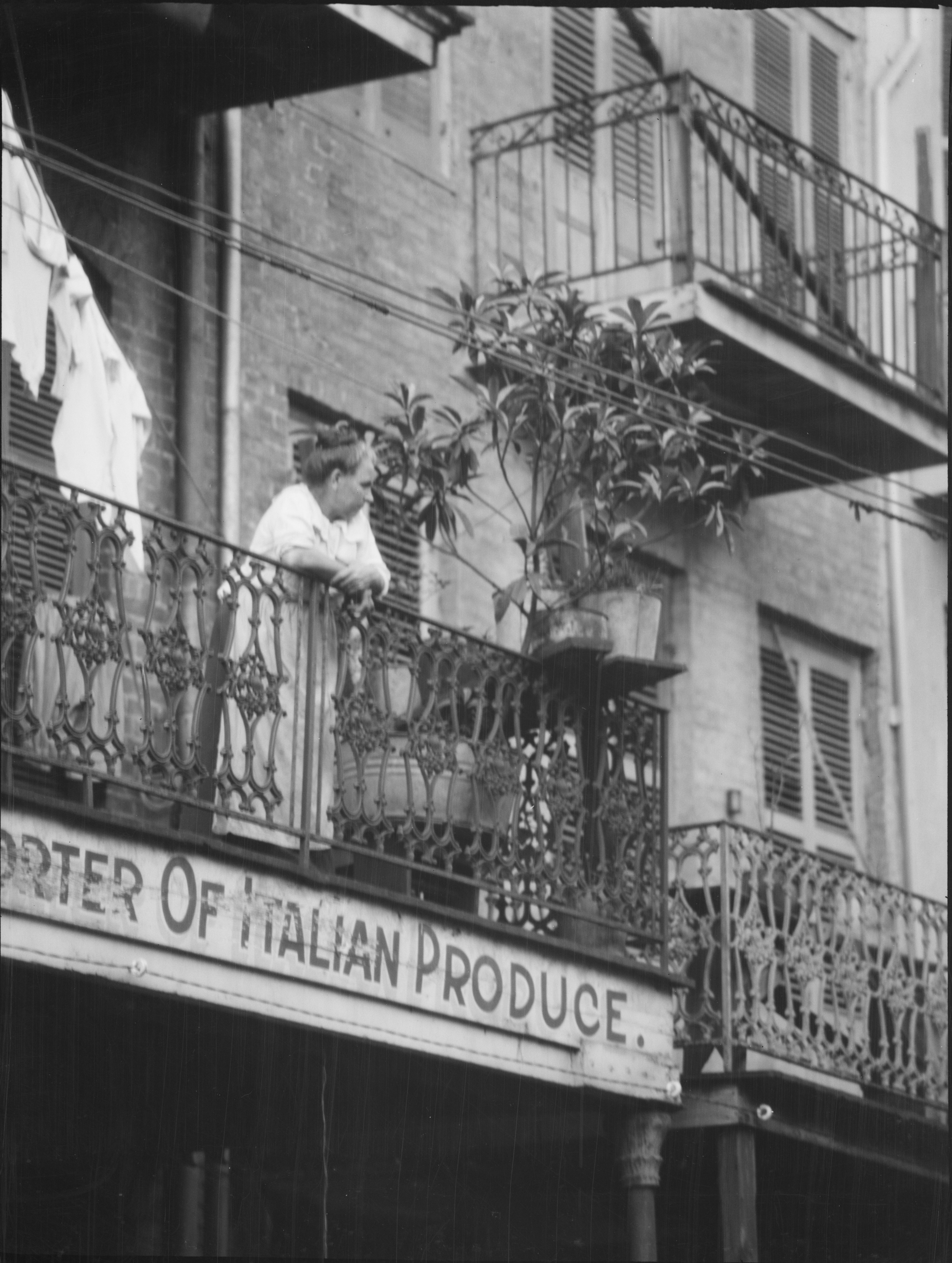 Woman on balcony, New Orleans, 1920s.